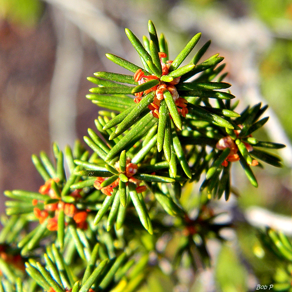 Florida rosemary has always been one of my favorite scrub plants. They are almost magical in their ability to grow in sterile quartz sand. The one above is in full bloom. I think this one is a male plant (they are dioecious). These, along with several other scrub plants, contribute to the mélange of fragrances that give the scrub it's subtle but unique smell, which I have loved since babyhood. Florida rosemary are allelopathic and produce ceratiolin, a chemical that inhibits the growth of other plants, often resulting in open sand patches around them. Ceratiola are killed by fire and are very slow to recover, doing so only by seeds that survived on the ground. It can take a new plant 10 years to begin producing seeds. Harvester ants, mice & birds eat the seeds. This plant is not actually related to the herb rosemary (Rosmarinus) and does not smell like it.